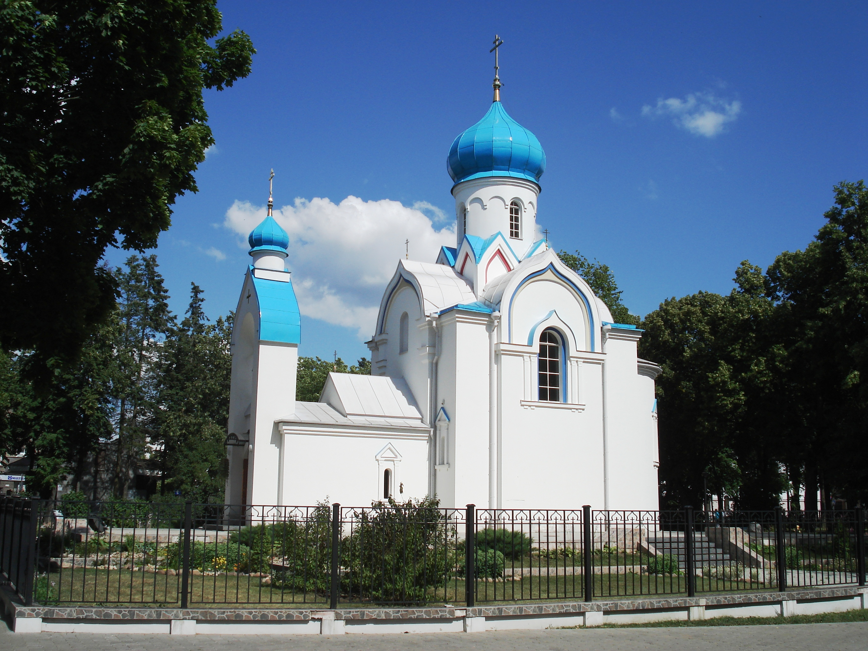 Daugavpils St Alexander Nevsky Orthodox Chapel